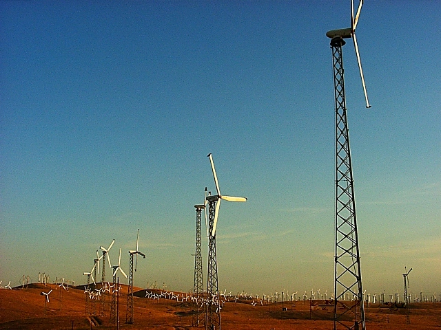 Some of the over 4000 wind turbines at Altamont Pass, in California. Developed during a period of tax incentives in the 1980s, this wind farm has more turbines than any other in the United States. These units are likely Enertech E44-40kWs. Photo taken by Xah lee in 2003-07.